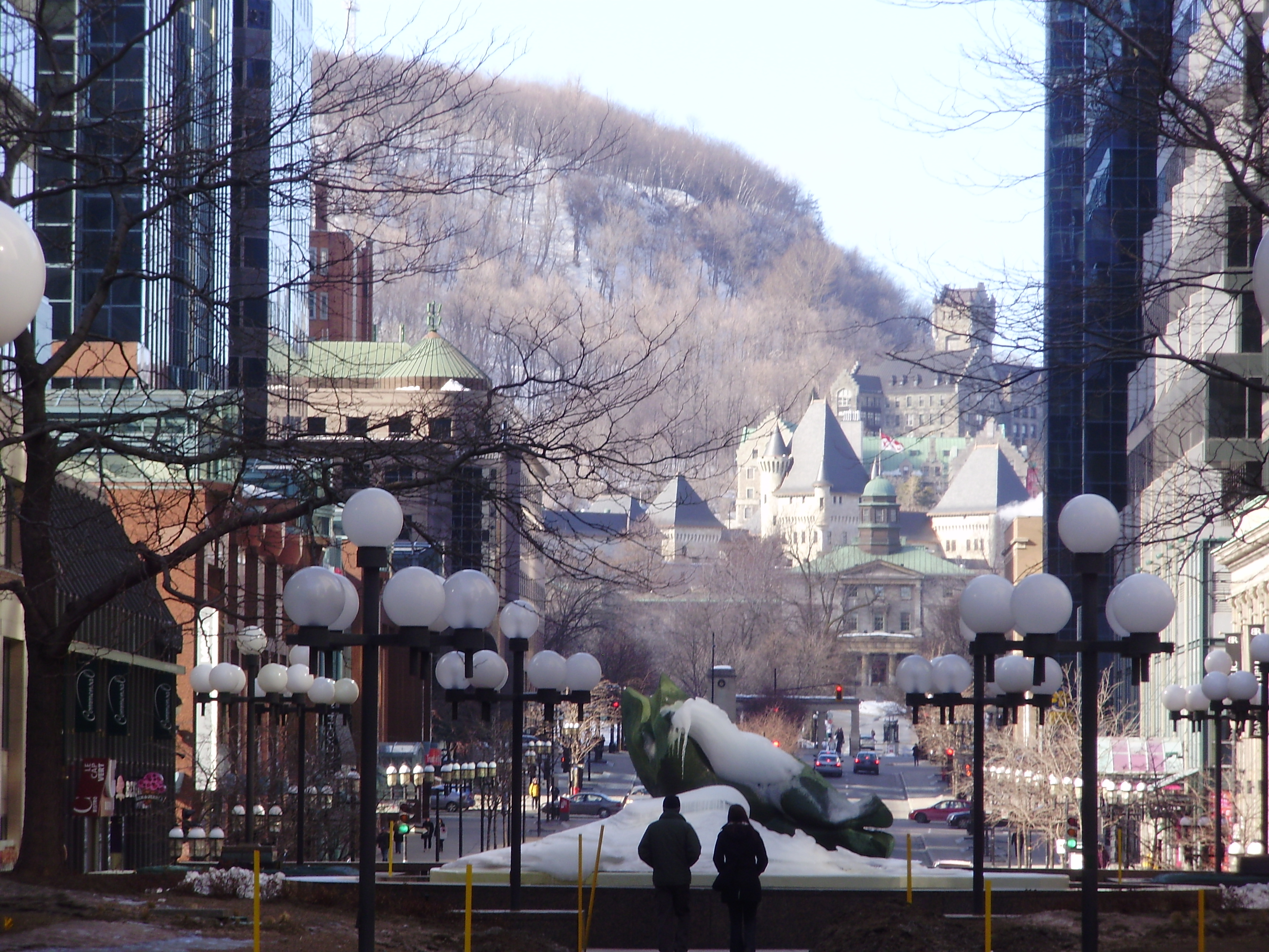 McGill University, Montreal, Quebec, Canada